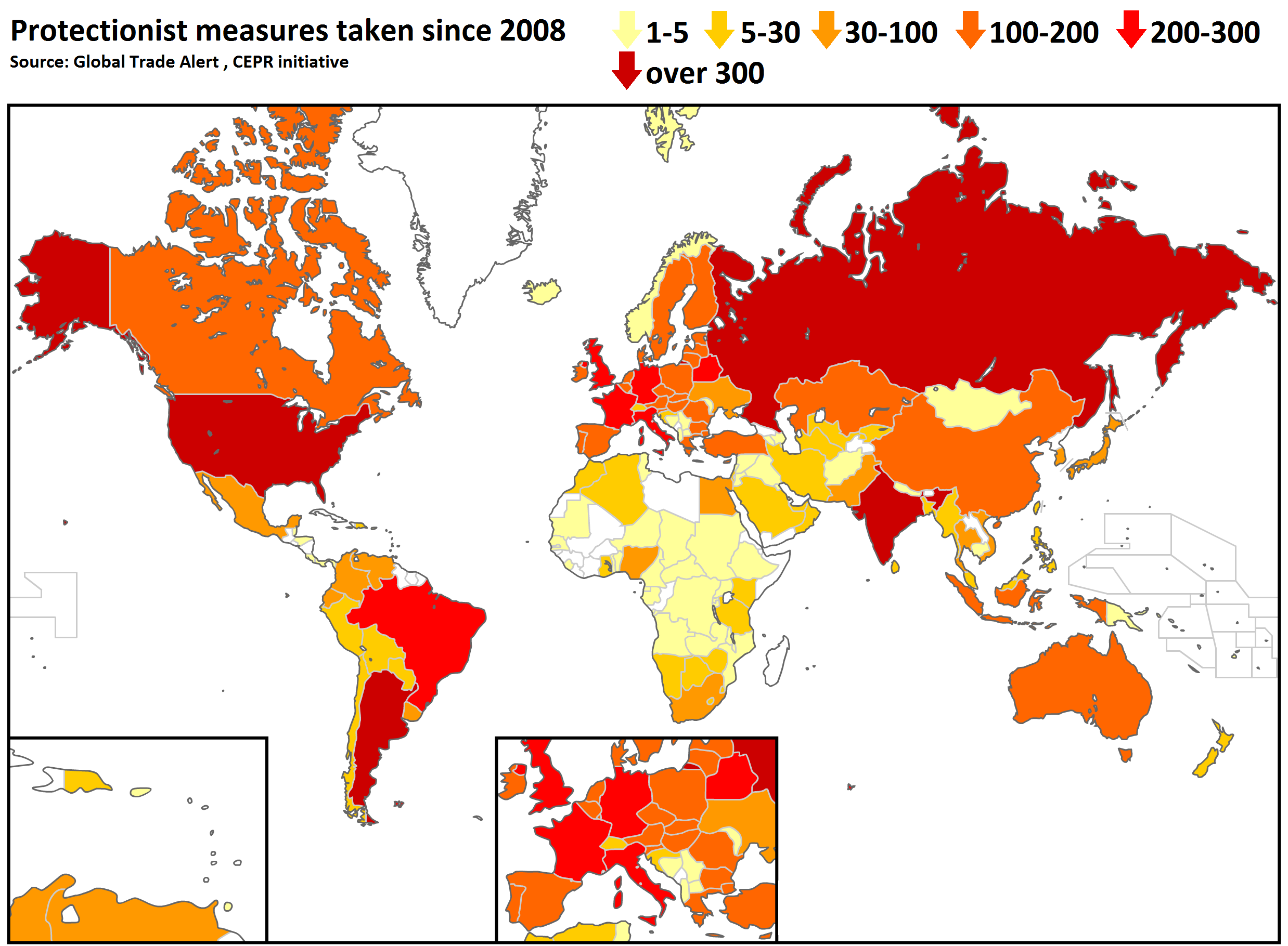 data based on protectionist measures taken by the countries since 2008. Link above is the source